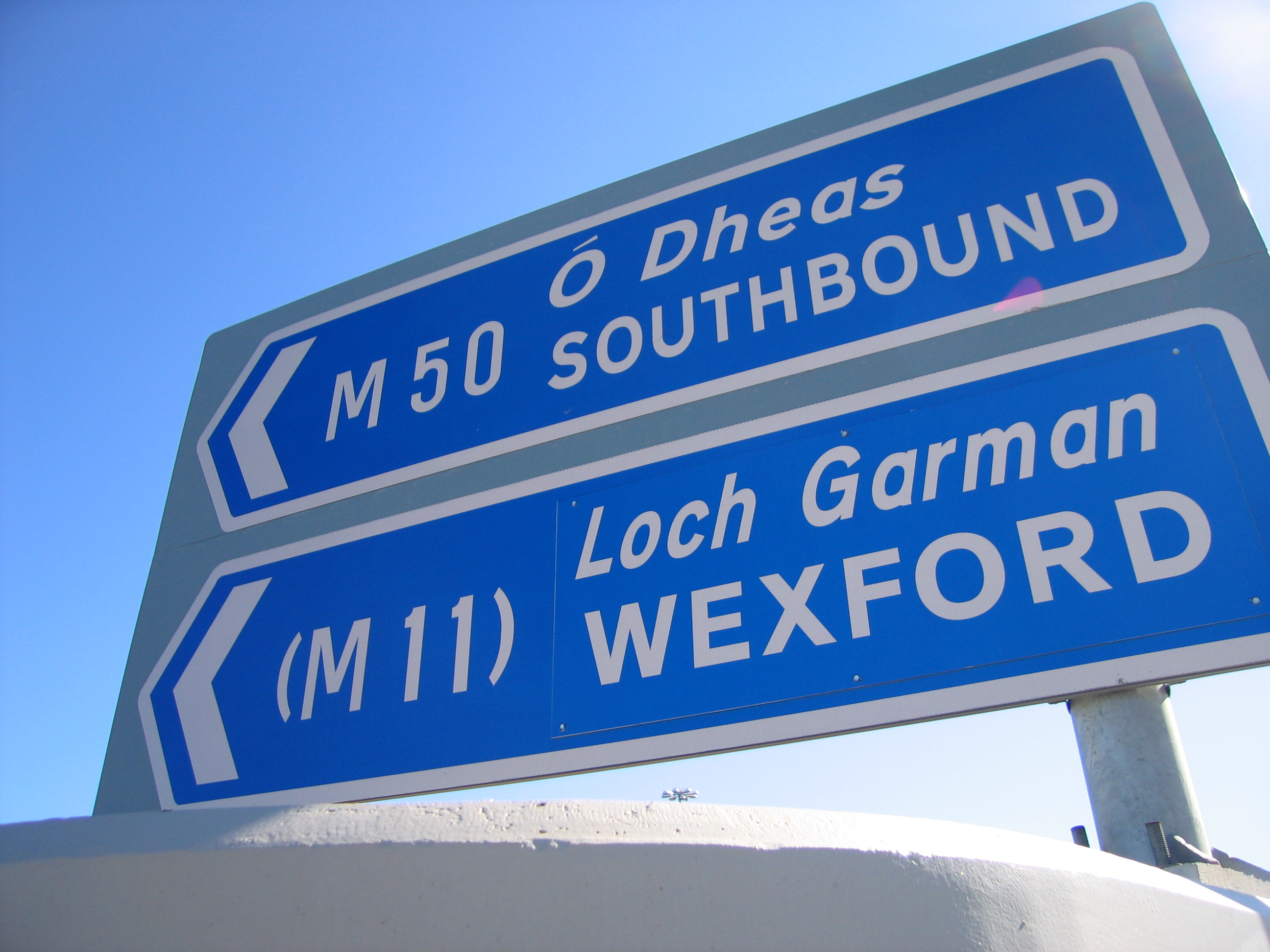 M50 access ramp sign